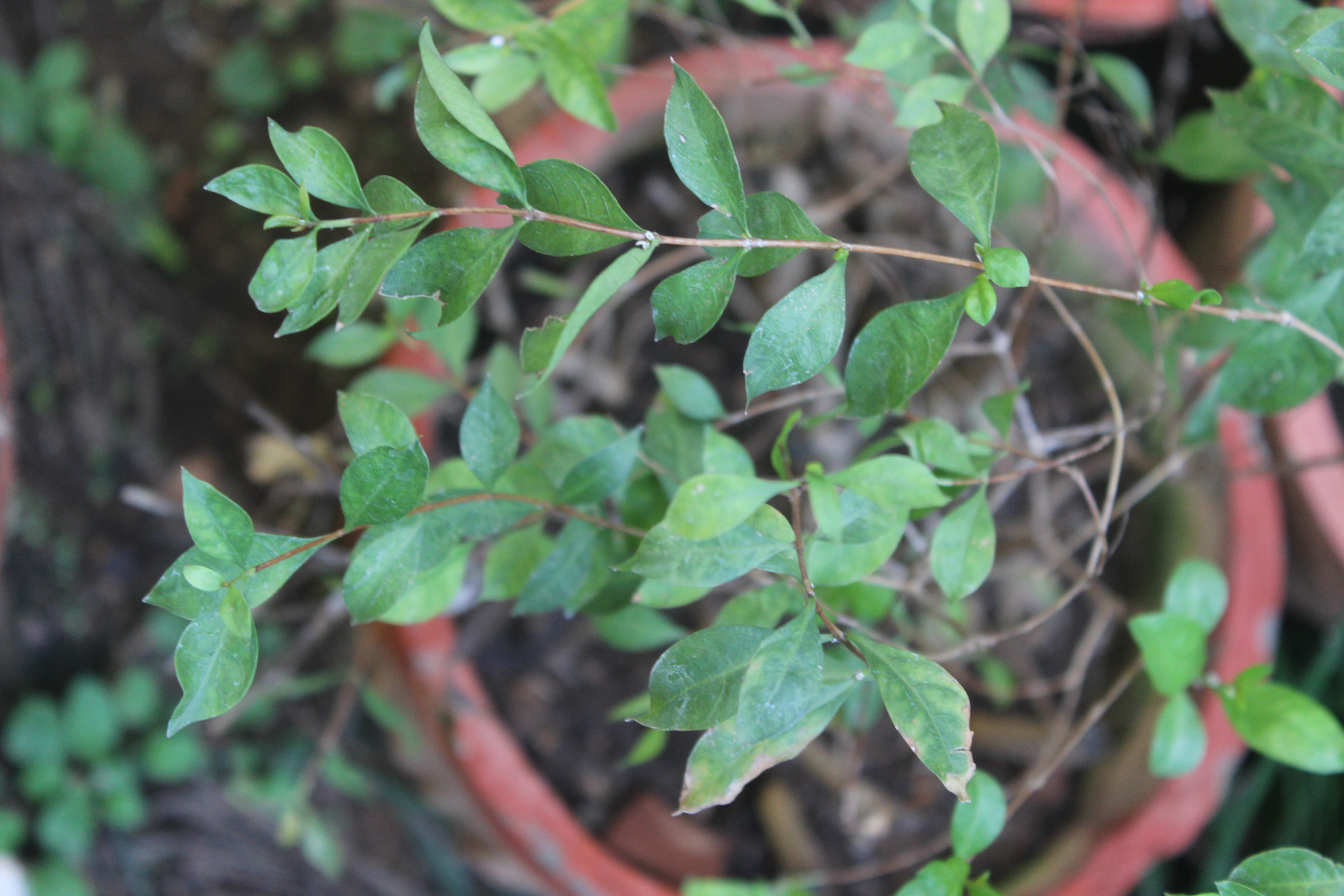 Goranti